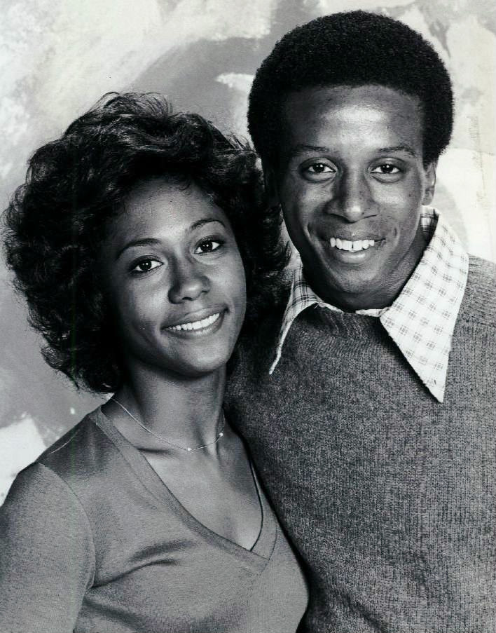 Publicity photo of Berlinda Tolbert as Jenny Willis and Damon Evans as Lionel Jefferson from the television programThe Jeffersons.